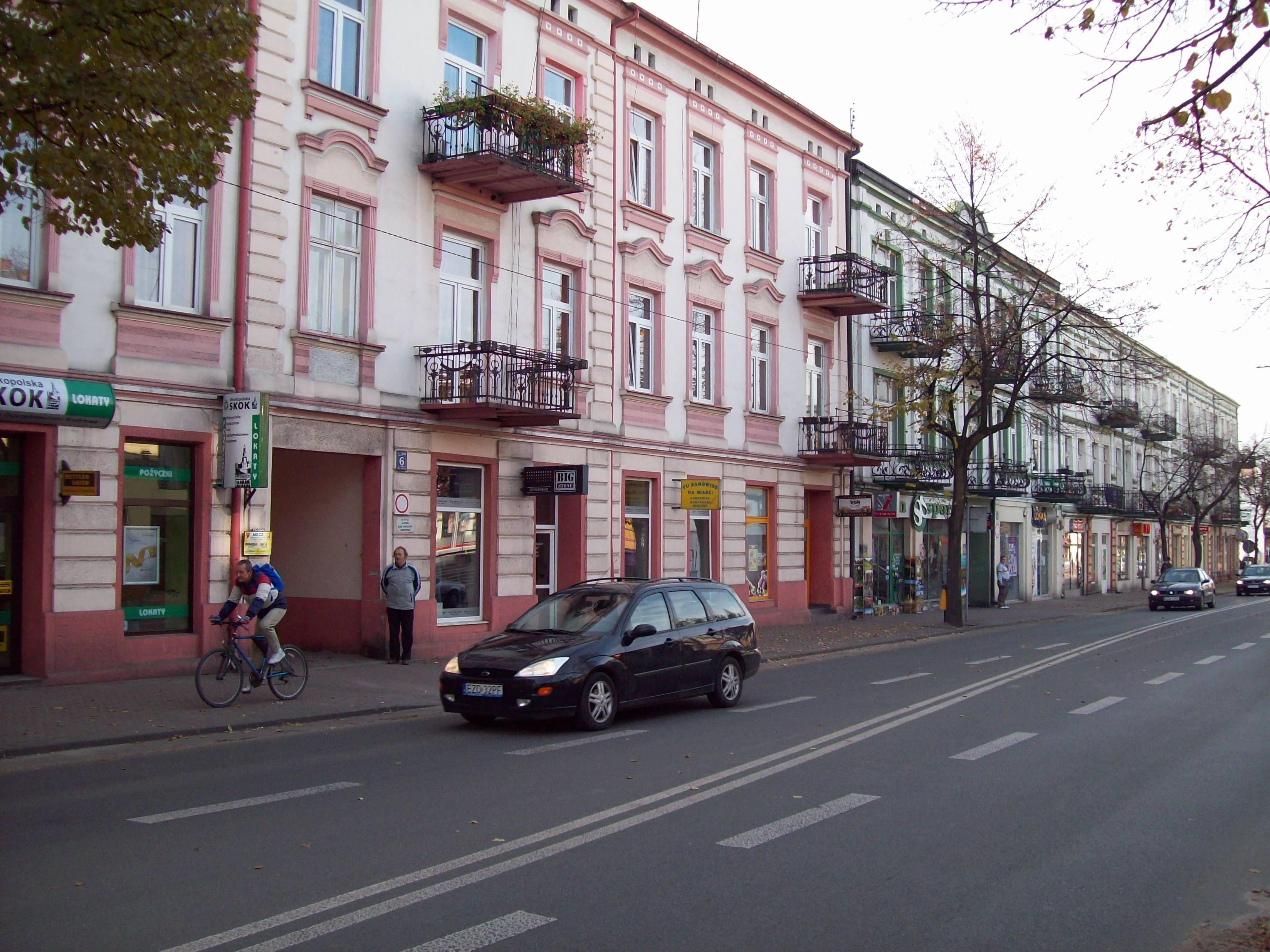 Laska street in Zdunska Wola